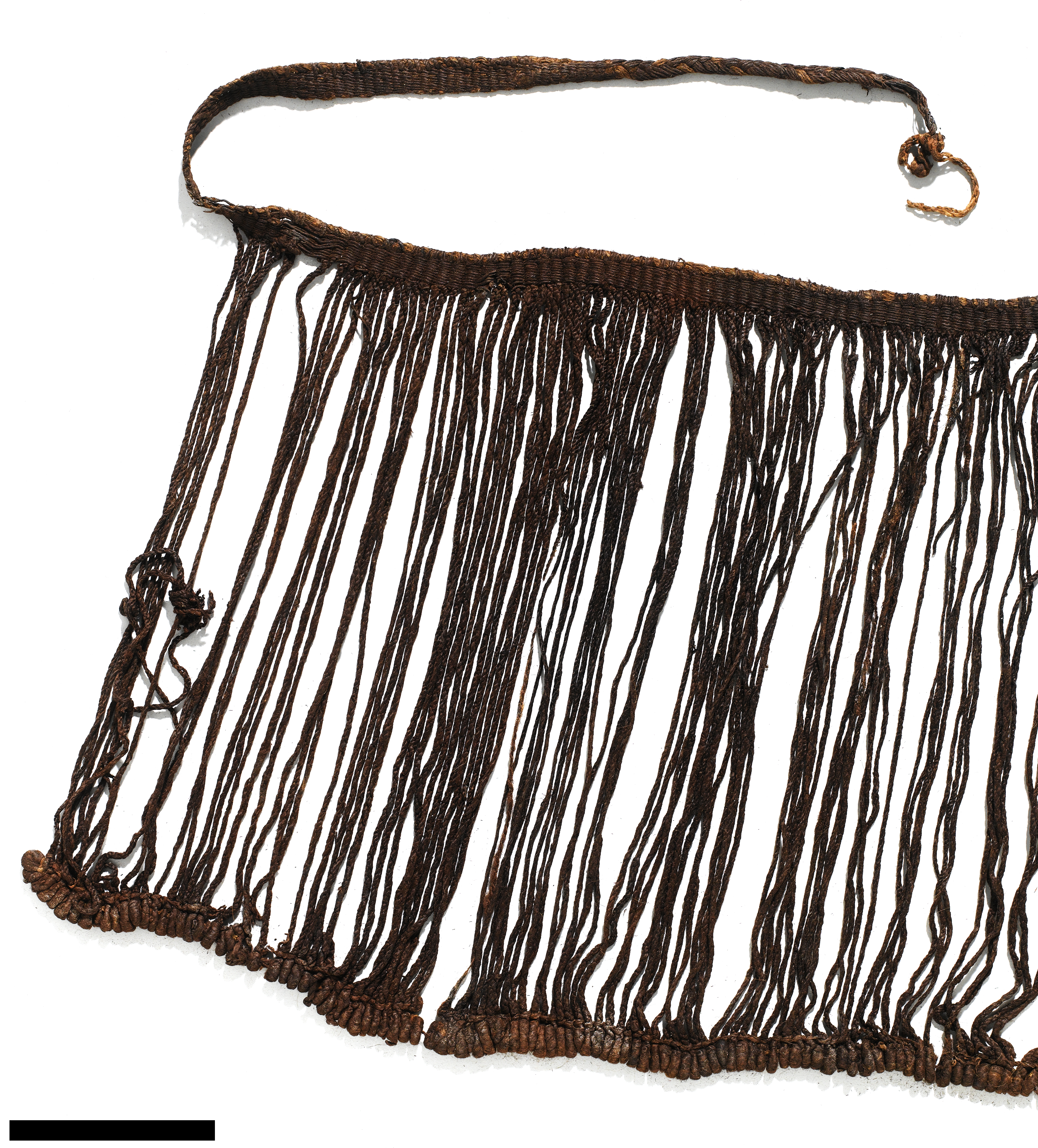 Egtveds girls rope skirt opened, Nationalmuseet, Danmark